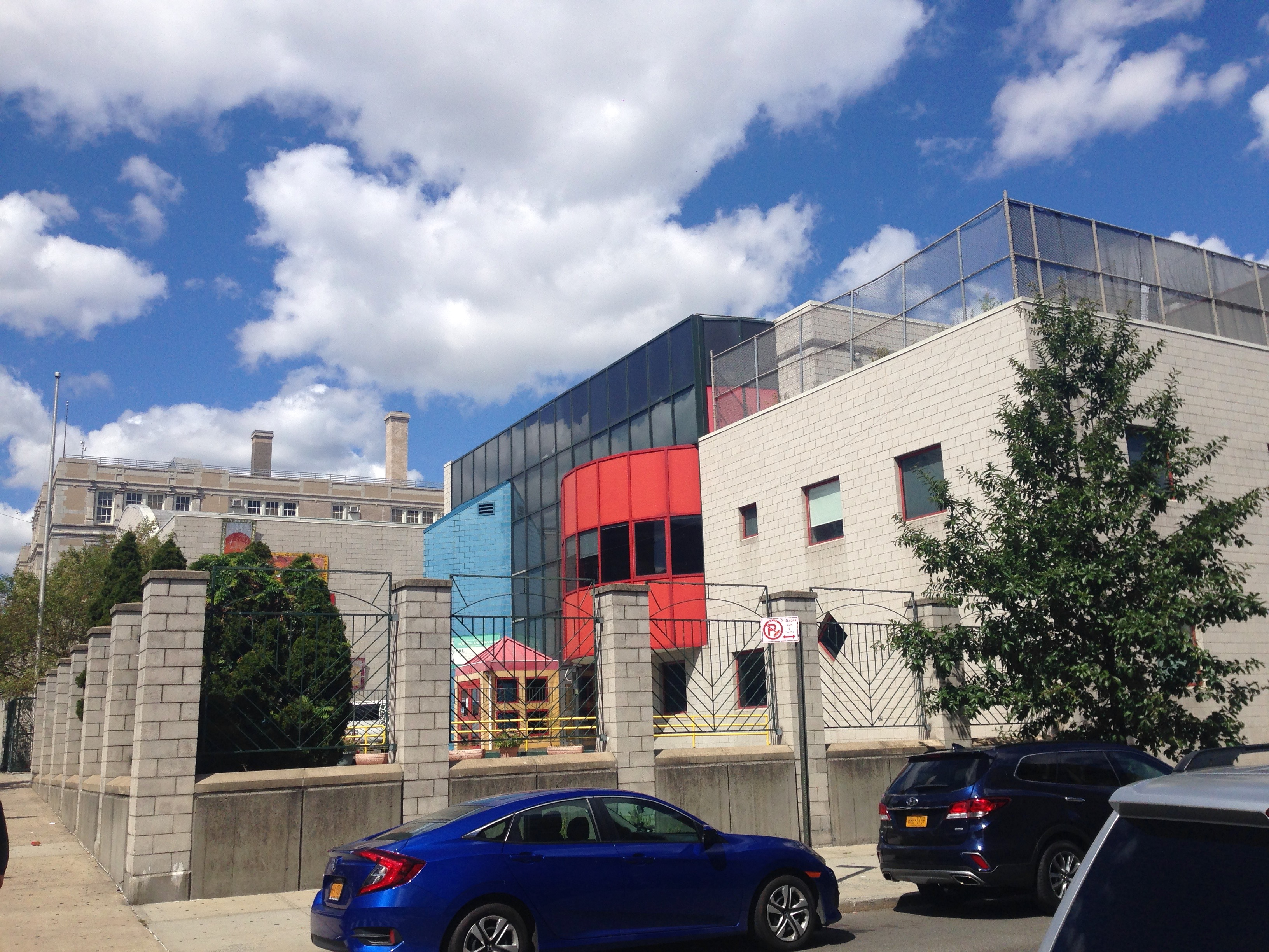 Police Athletic League of New York City facility in the Longwood, Bronx neighborhood of The Bronx.